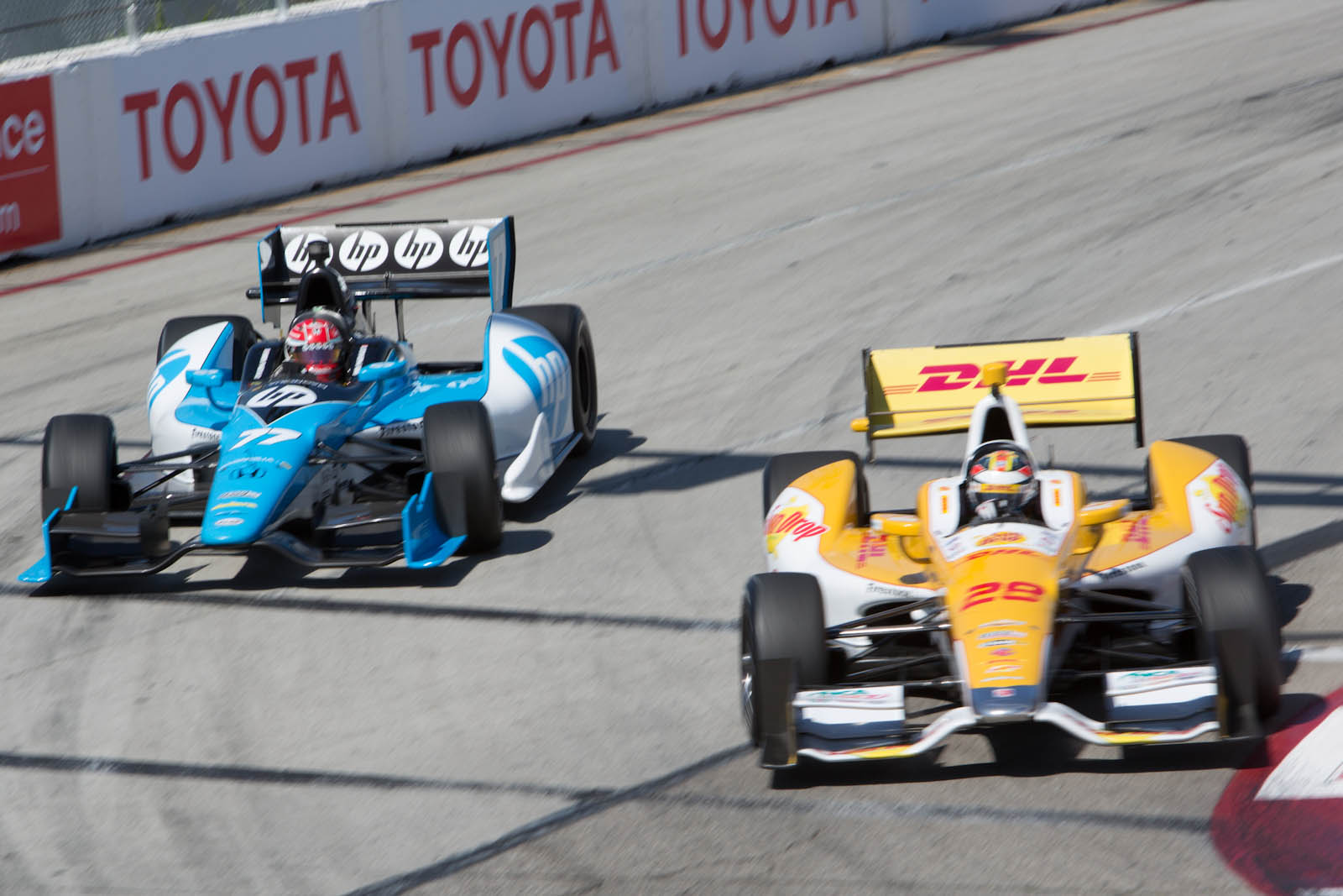 Simon Pagenaud (left) and Ryan Hunter-Reay at the 2012 Toyota Grand Prix of Long Beach.